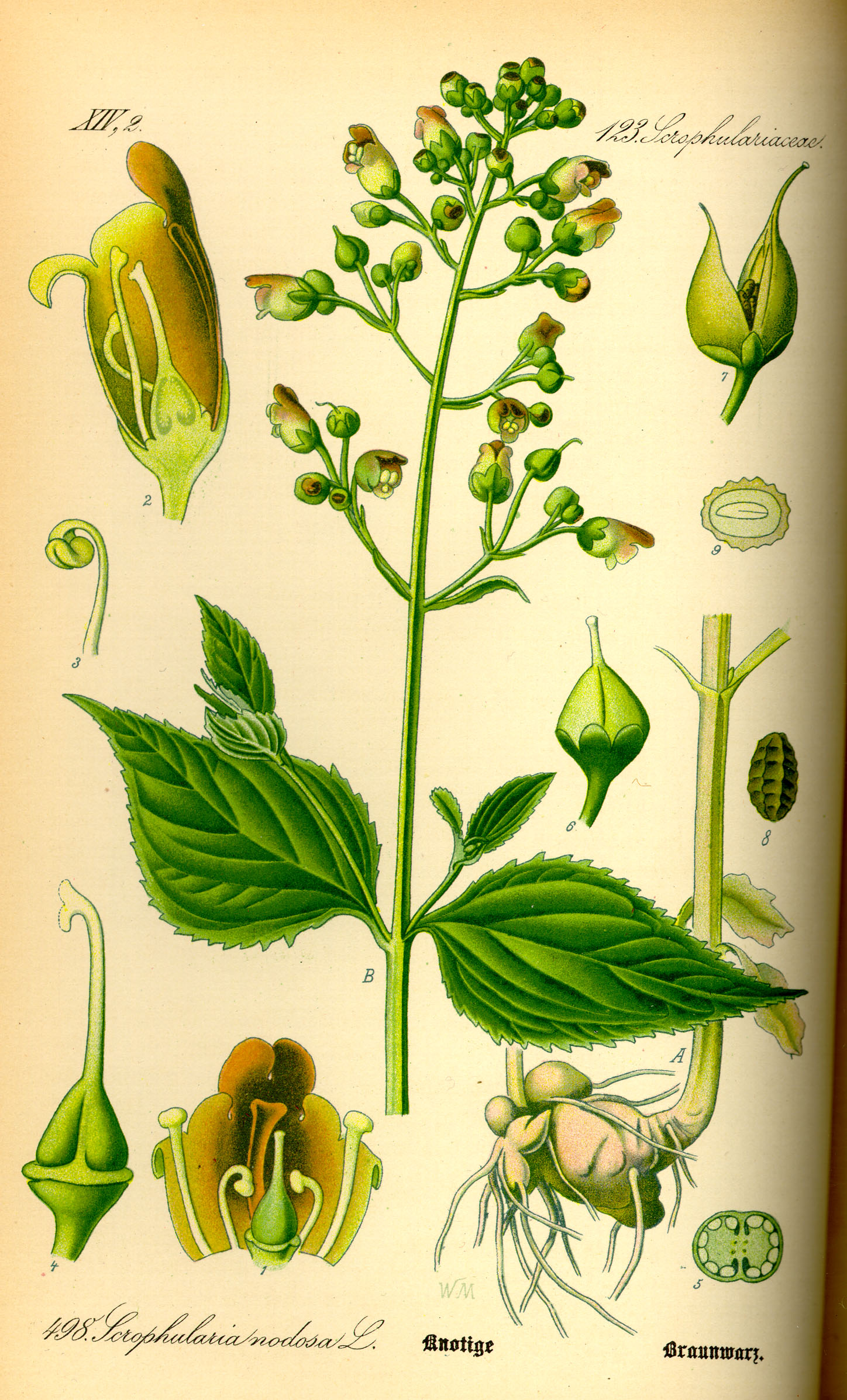 Name Scrophularia nodosa Family Scrophulariaceae